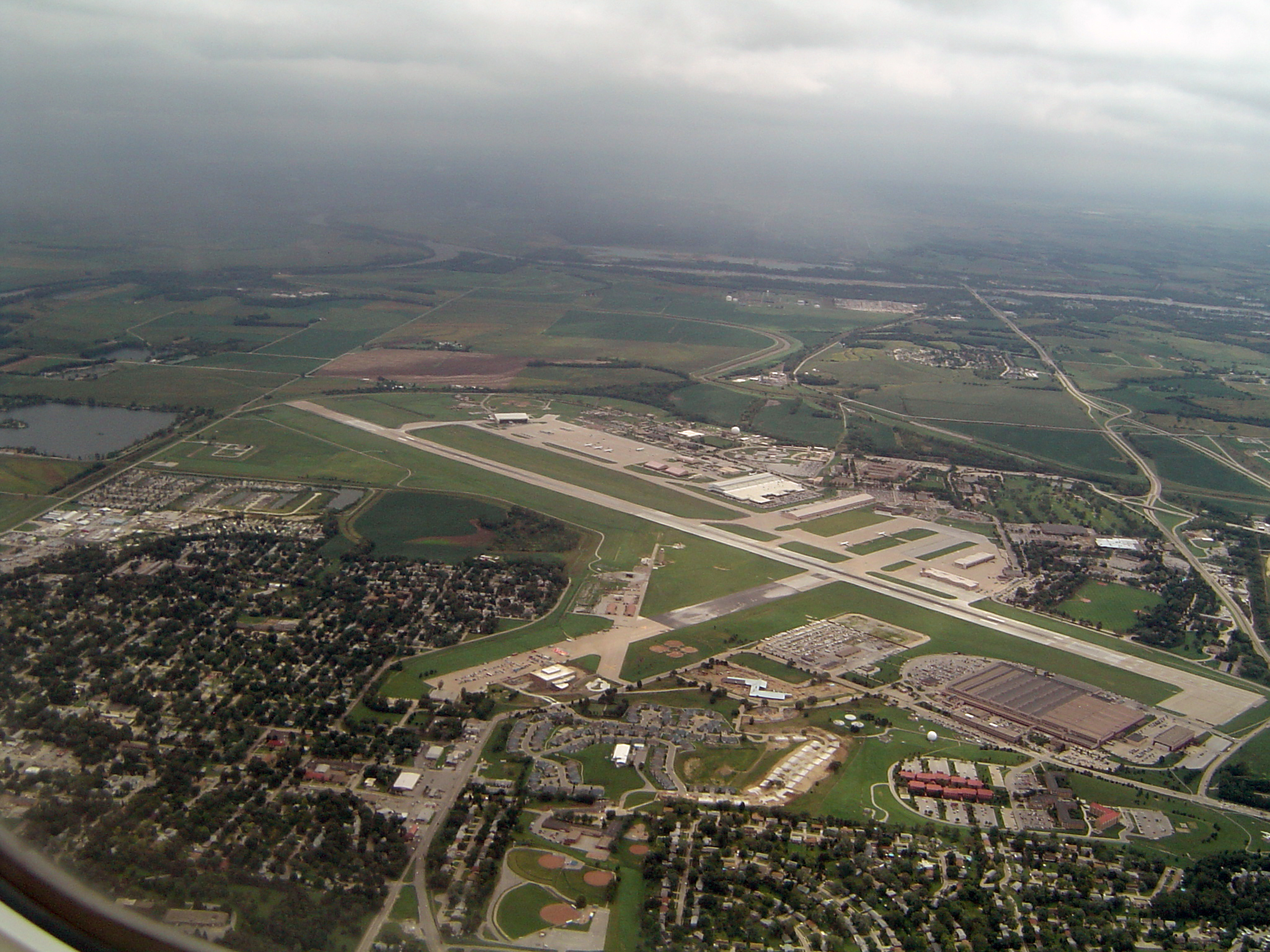 This is a photo I took of Offutt Air Force Base near Omaha, Nebraska, from an airline while on final approach to Eppley Airfield.